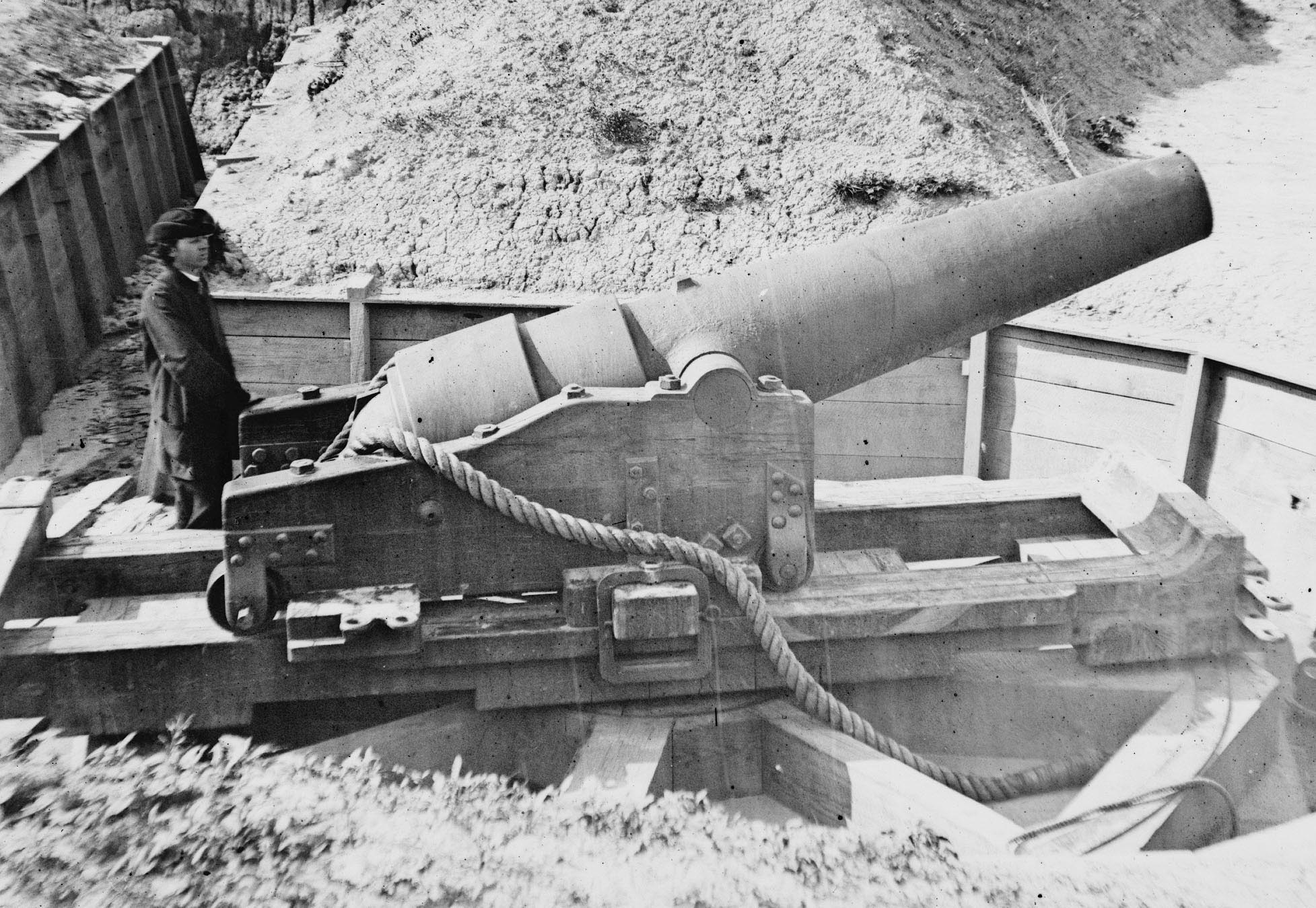 Dutch Gap Canal, James River, Virginia. Confederate Battery Brooke on James River above Dutch Gap Canal